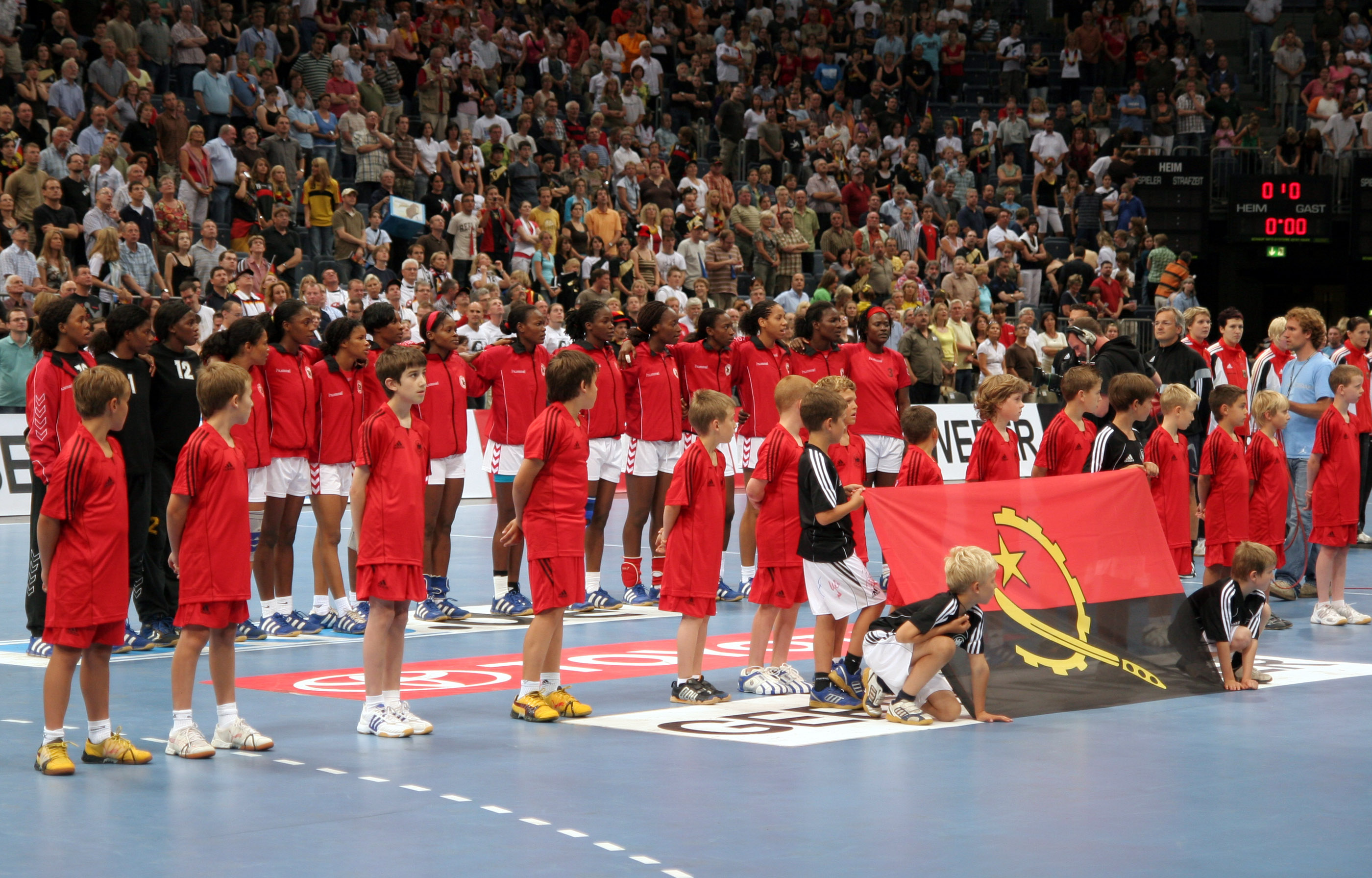 The Angolian female national handball team prior the cap Germany vers. Angolia, on July 26th 2008 in the Lanxess-Arena of Cologne